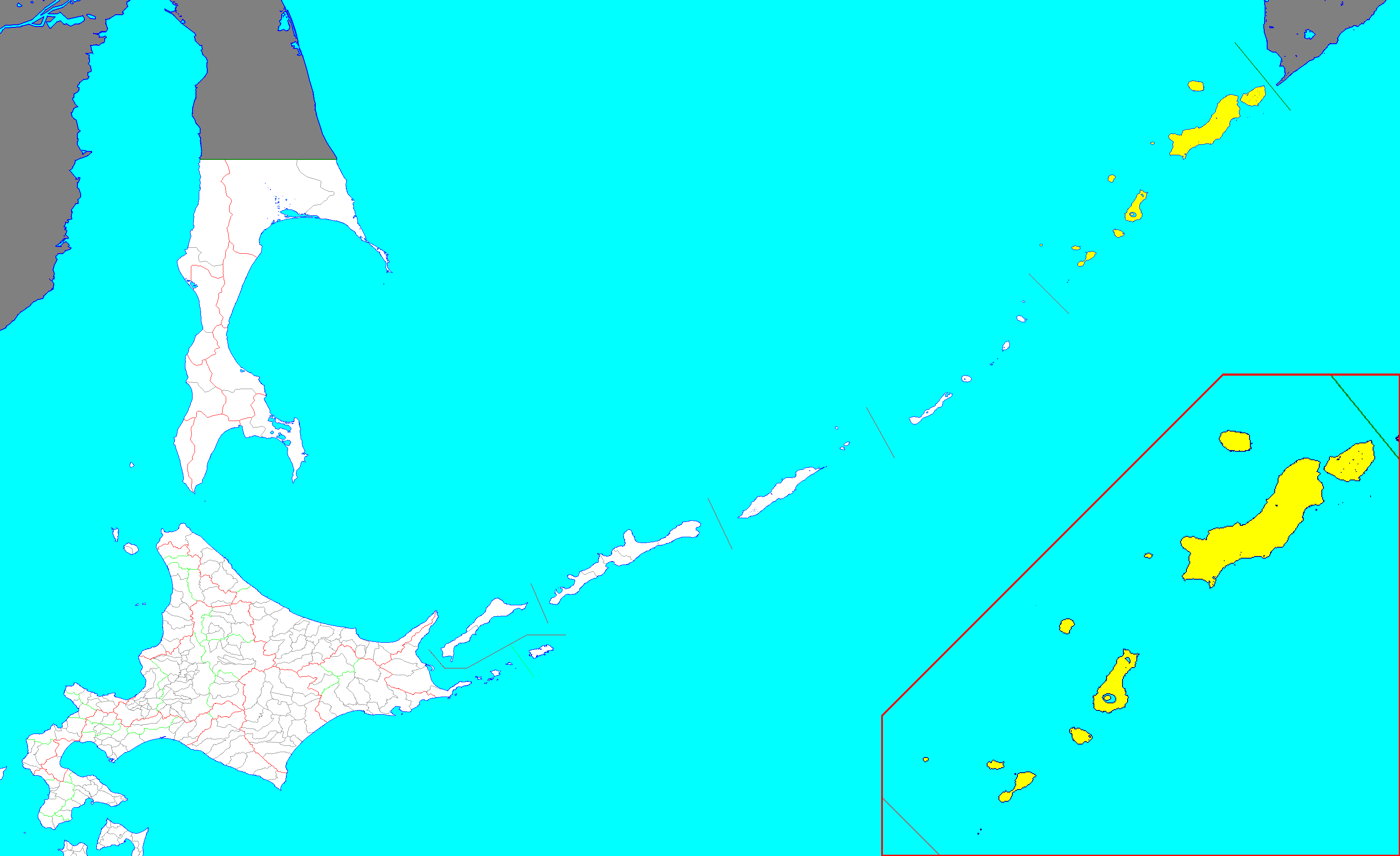 location of Syumusyu in Chishima Subprefecture, Hokkaido Prefecture, Japan(1876/01/14)